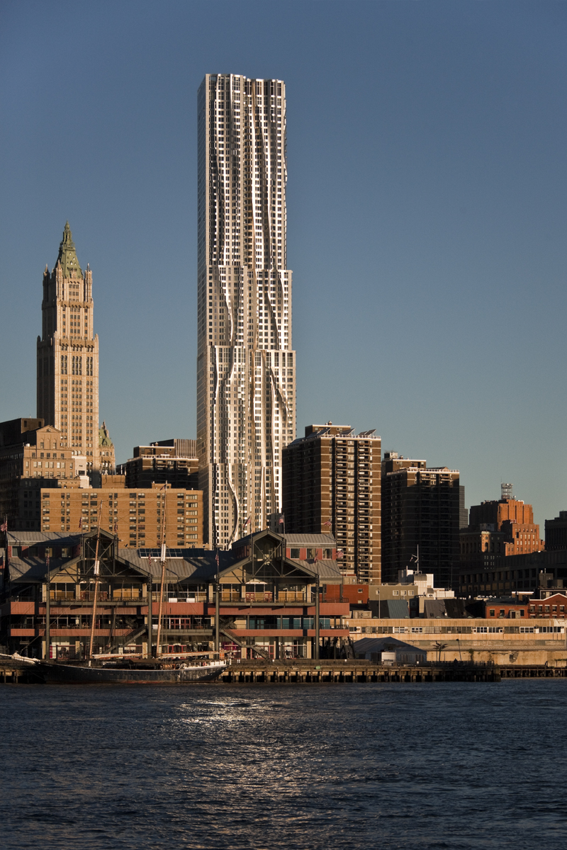 Photo taken by dbox inc The tallest residential tower in the Americas. Created by the most acclaimed architect of our time. Rental residences by Frank Gehry. Leasing begins early 2011. NYC, Designed by Frank Gehry, at 8 Spruce Street in lower Manhattan, scheduled completion - 2012. Titanium and Glass exterior, 76 stories.